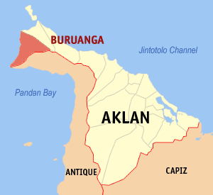 Map of Aklan showing the location of Buruanga